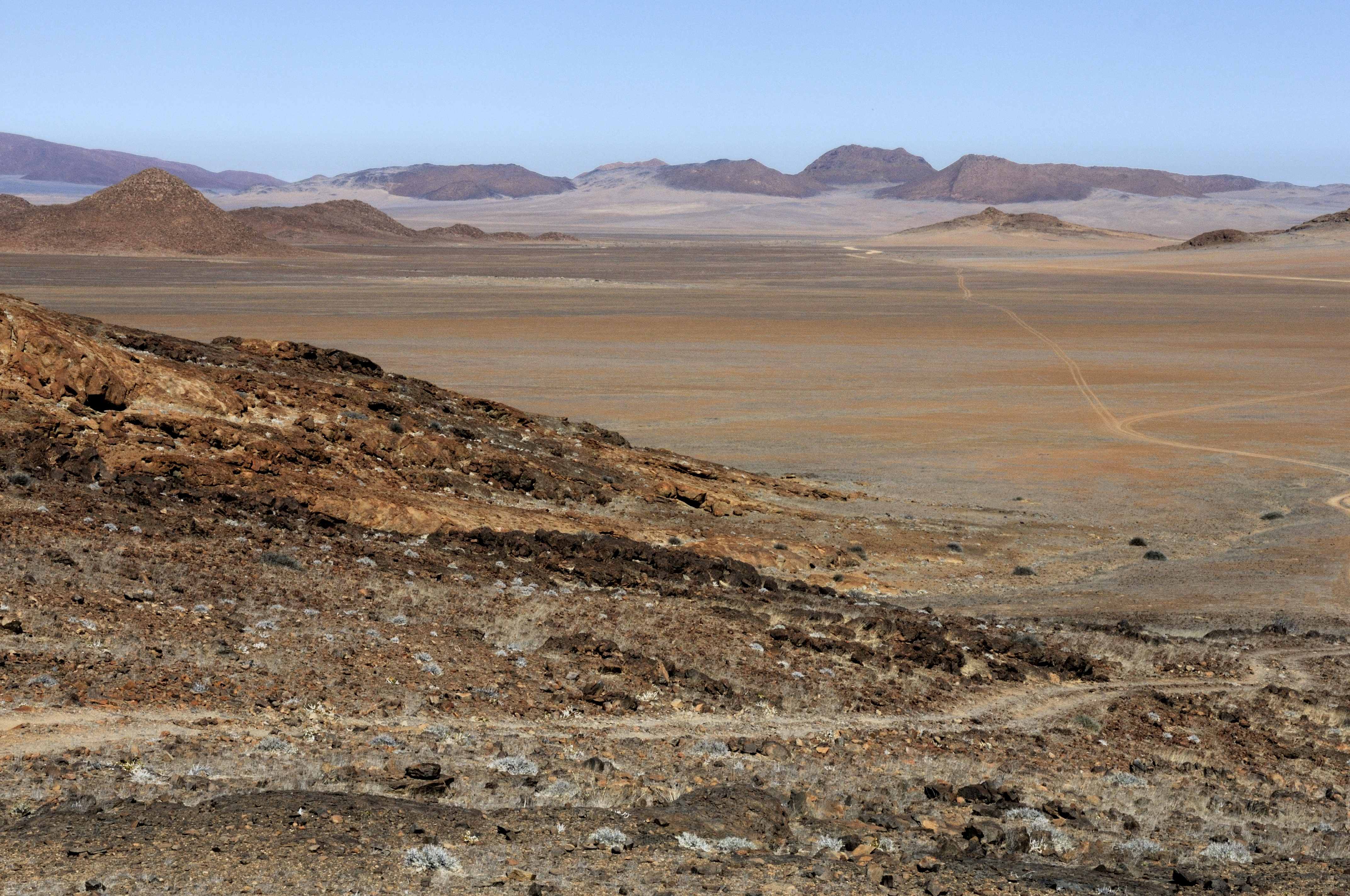 Inside Messum Crater